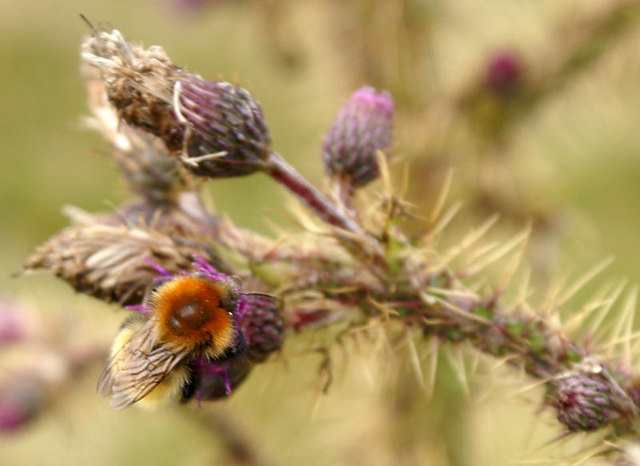 Shetland Bumblebee (Bombus muscorum agricolae) This distinctive subspecies, much brighter than the Mainland race, is the commonest bumblebee in Shetland. The subspecies agricolae is also supposedly found in the Outer Hebrides although it is difficult to see how both populations can have a common ancestor, so they should probably be treated as separate subspecies.